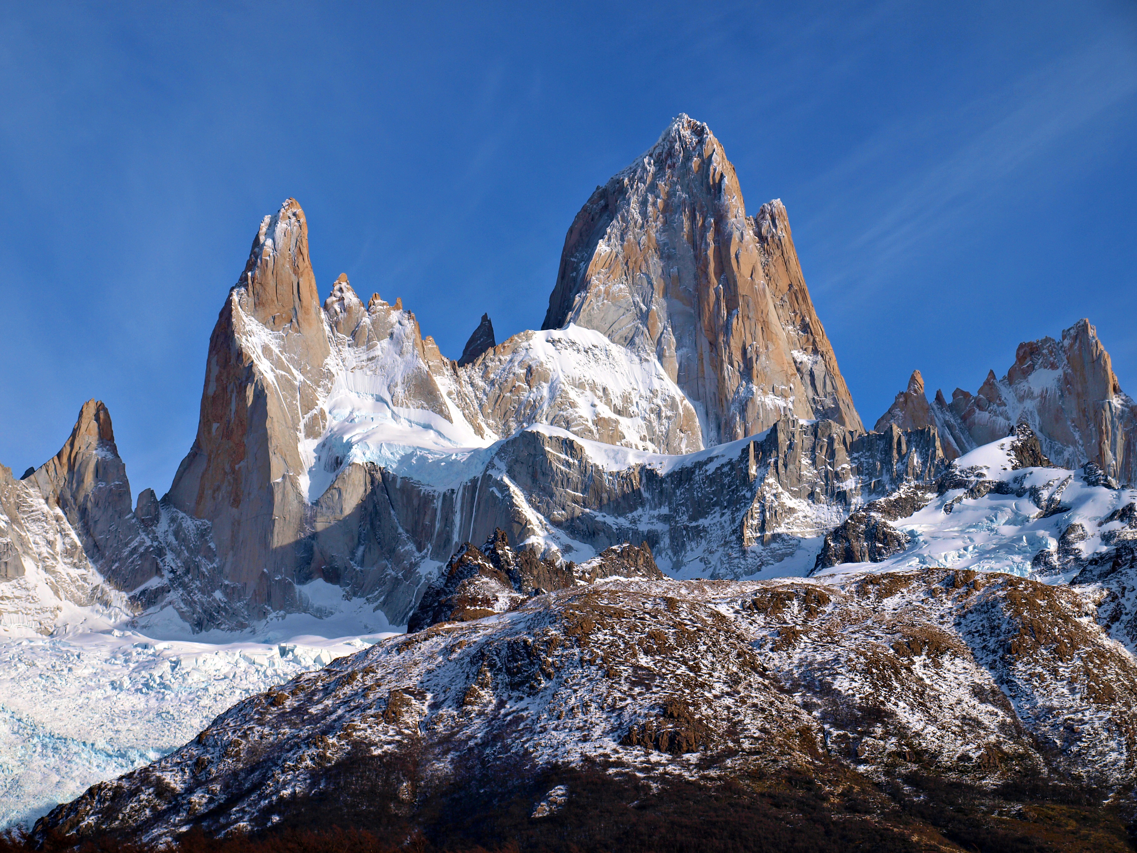 Mount Fitz Roy, Los Glaciares National Park, Patagonia, Argentina